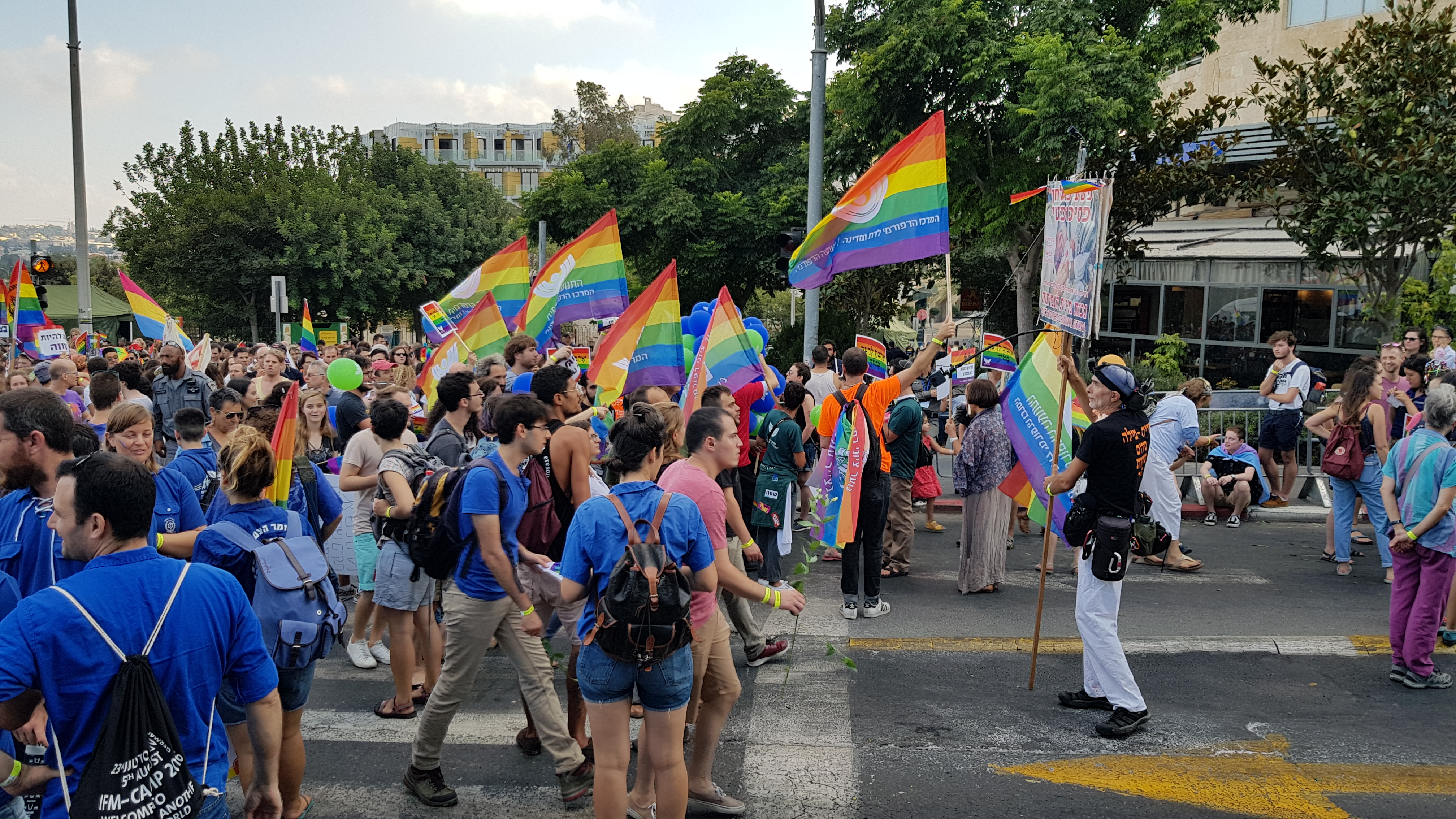 Jerusalem gay pride parade 2018Jerusalem